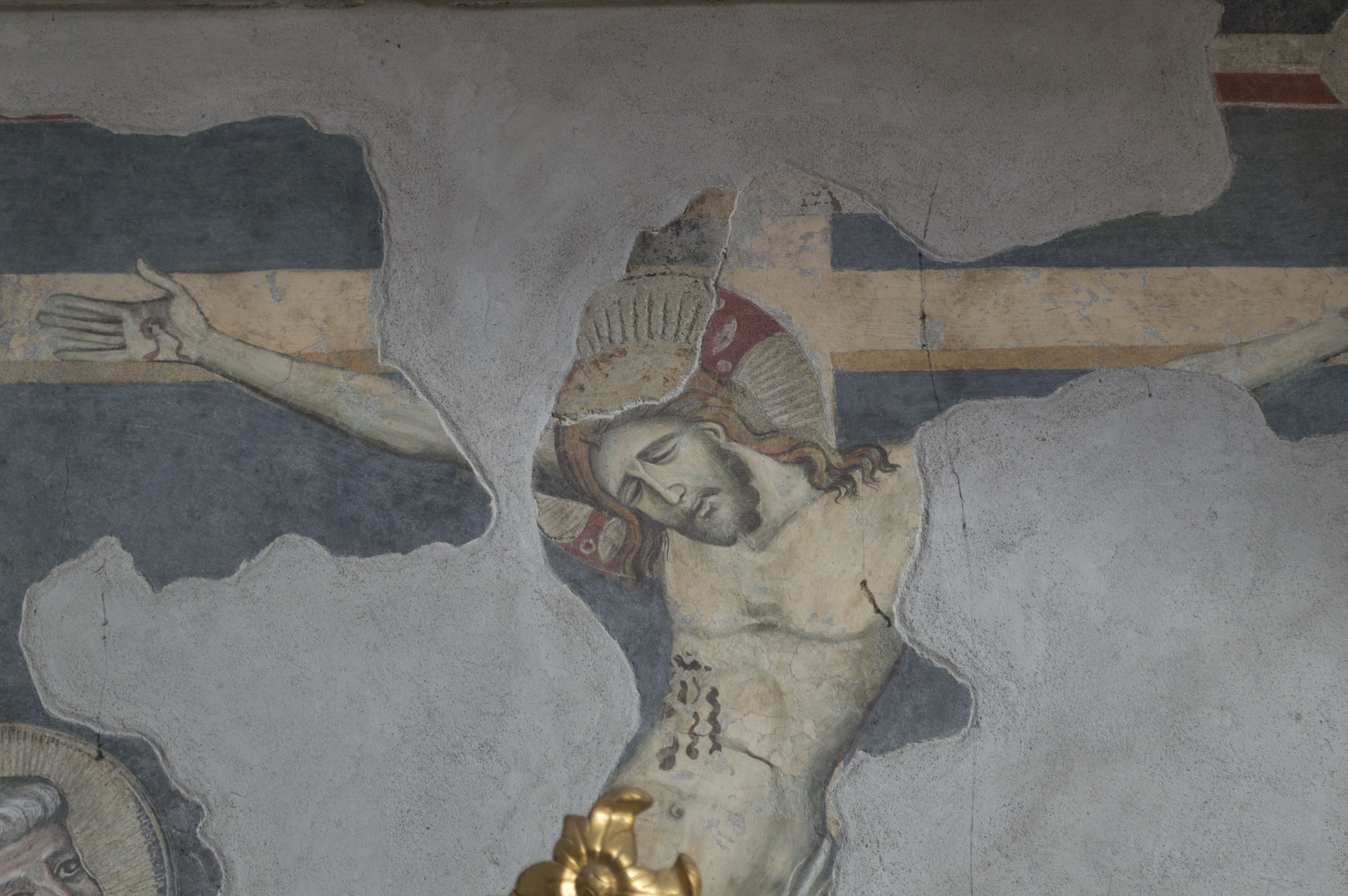 Cappella Capece Minutolo in Naples Cathedral